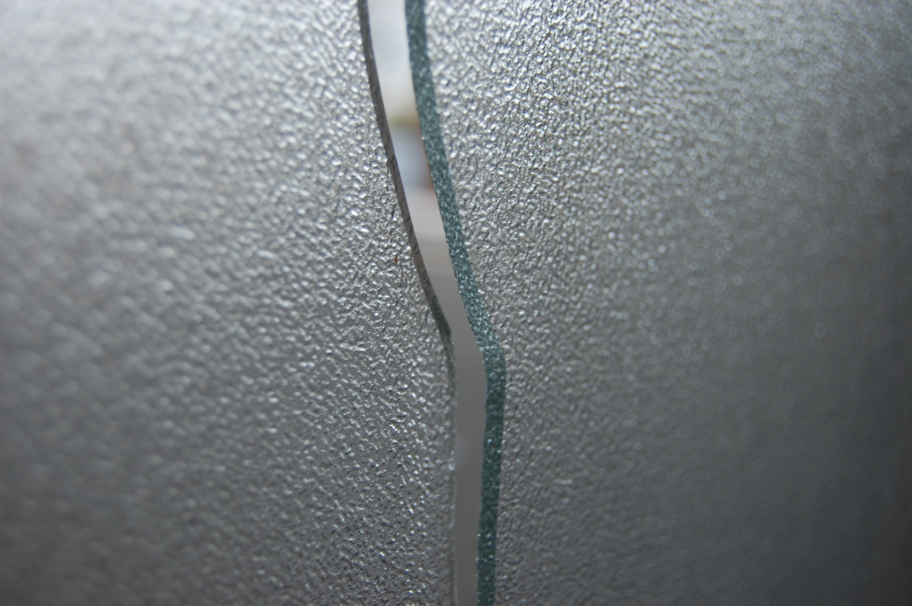 A window broken in two parts